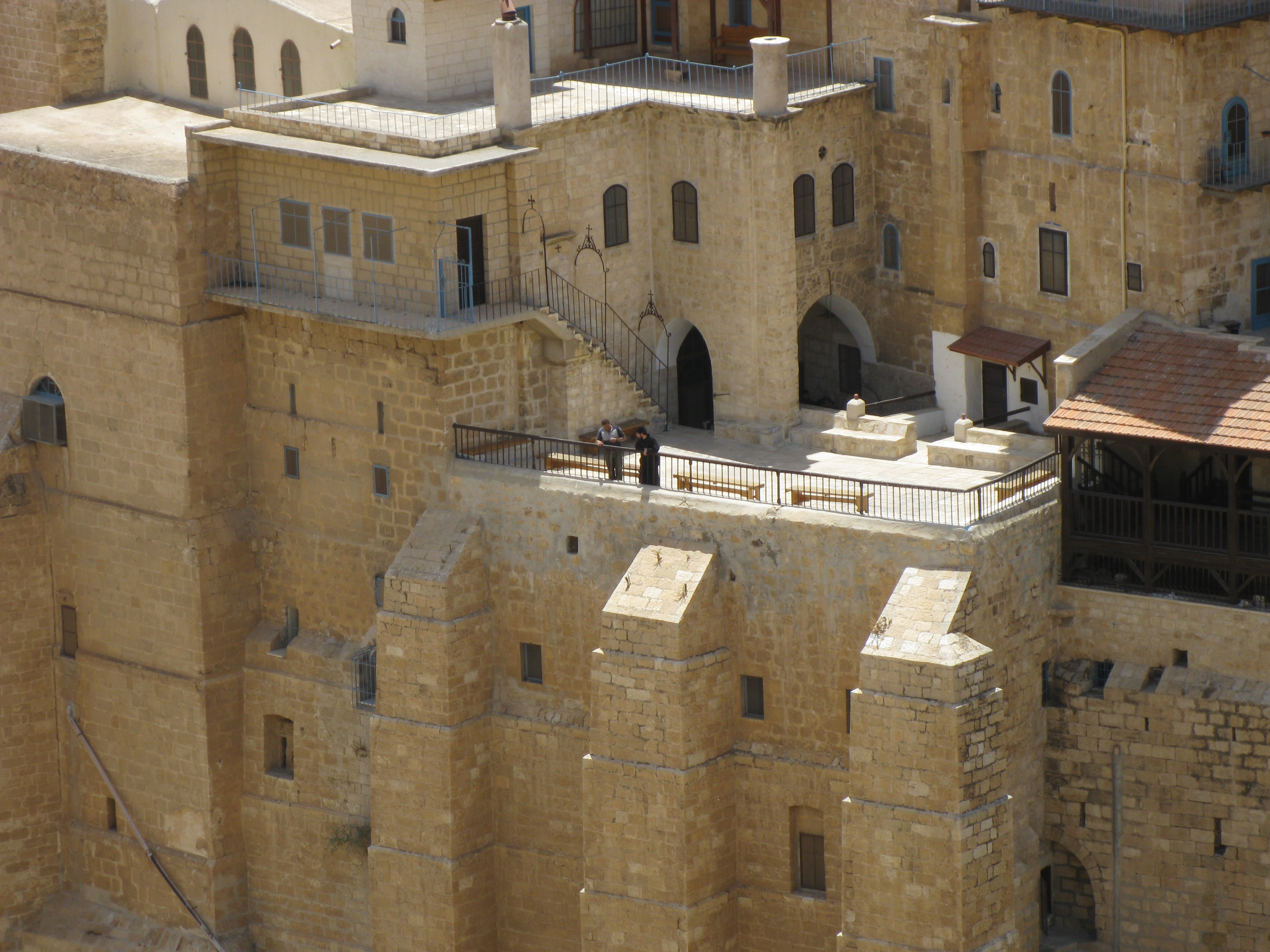 Mar Saba Monestary